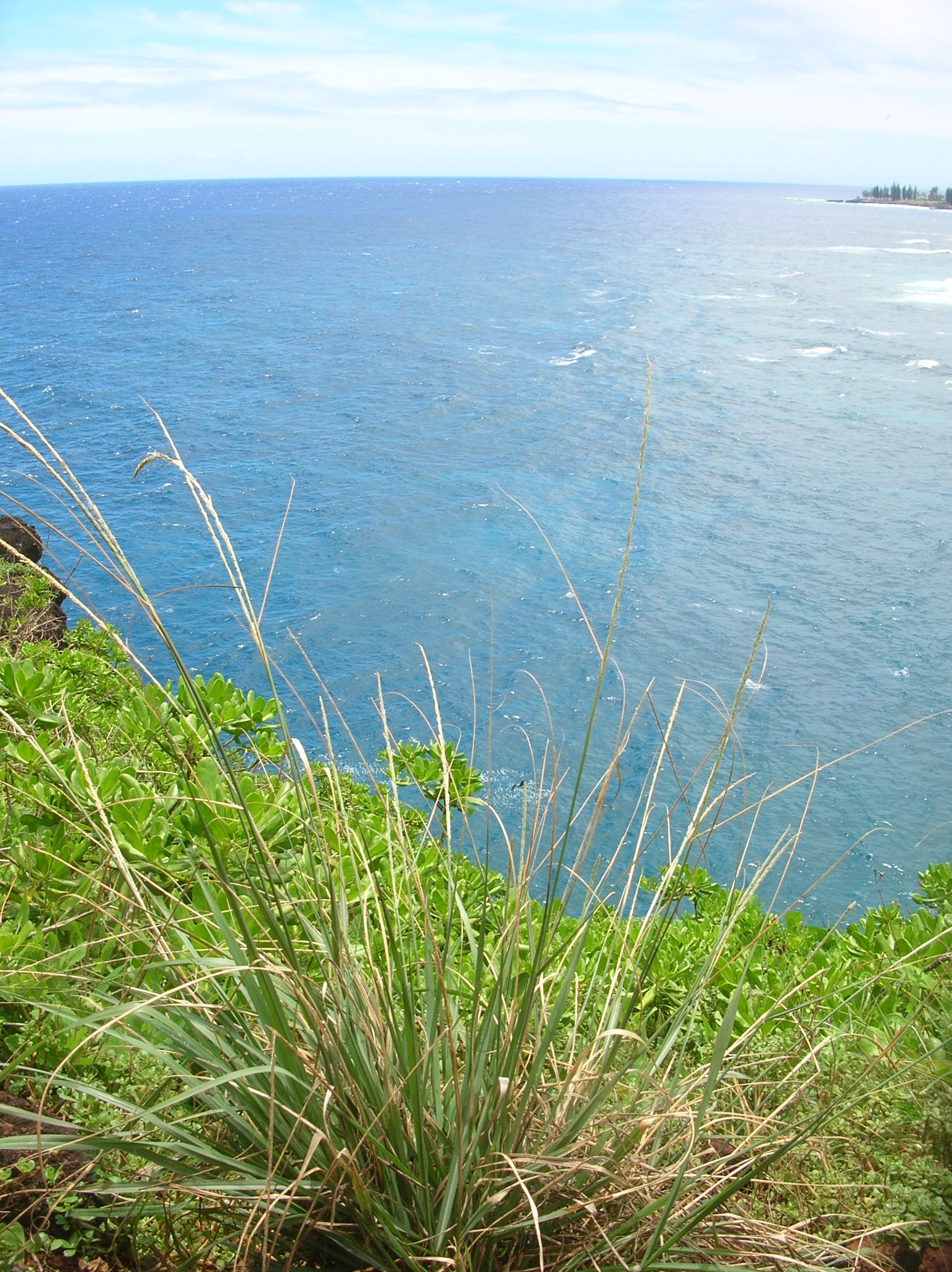 Sporobolus indicus (habitat). Location: Maui, Alau, Hawaii